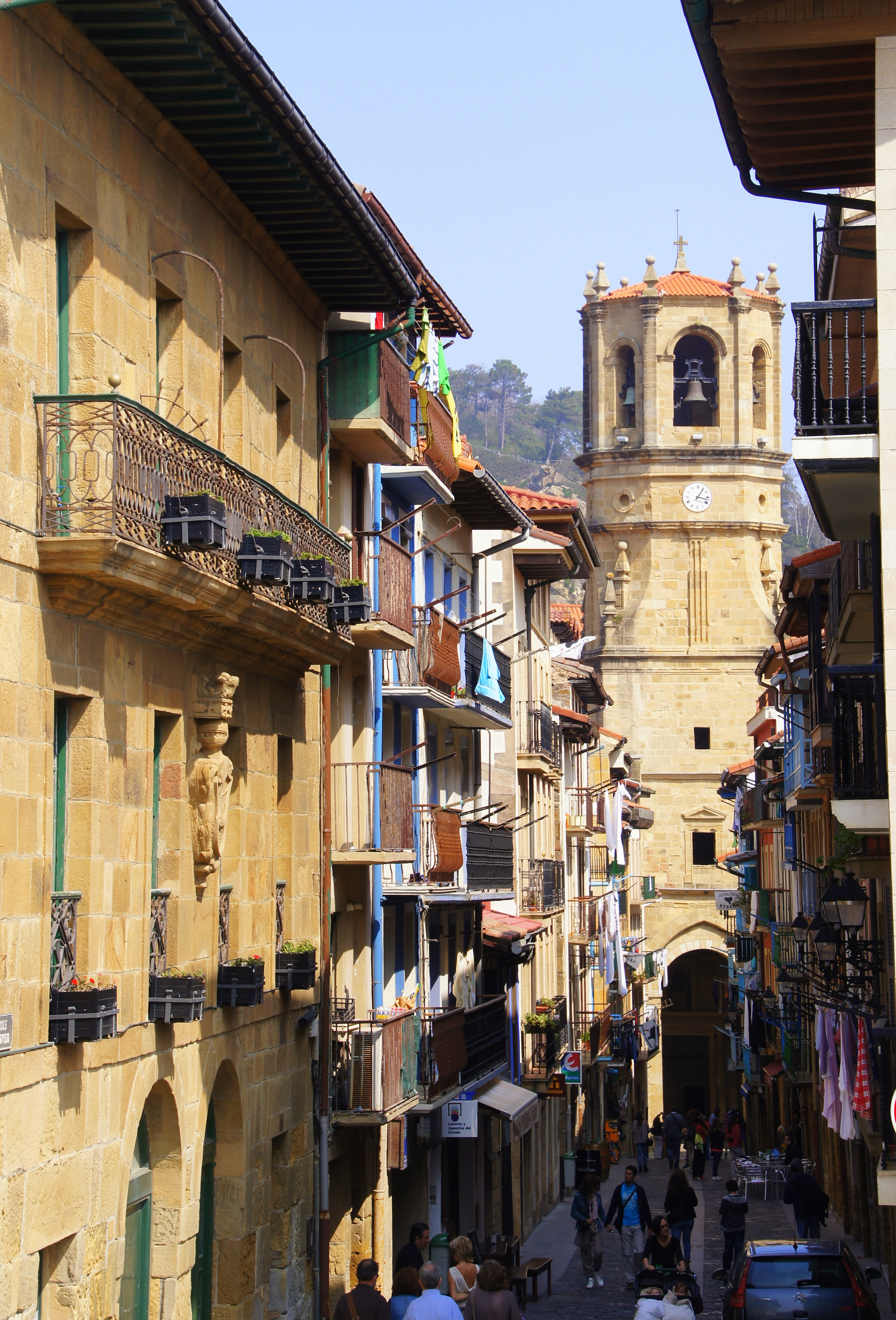 The old town of Getaria (Guipuzcoa, Basque Country)